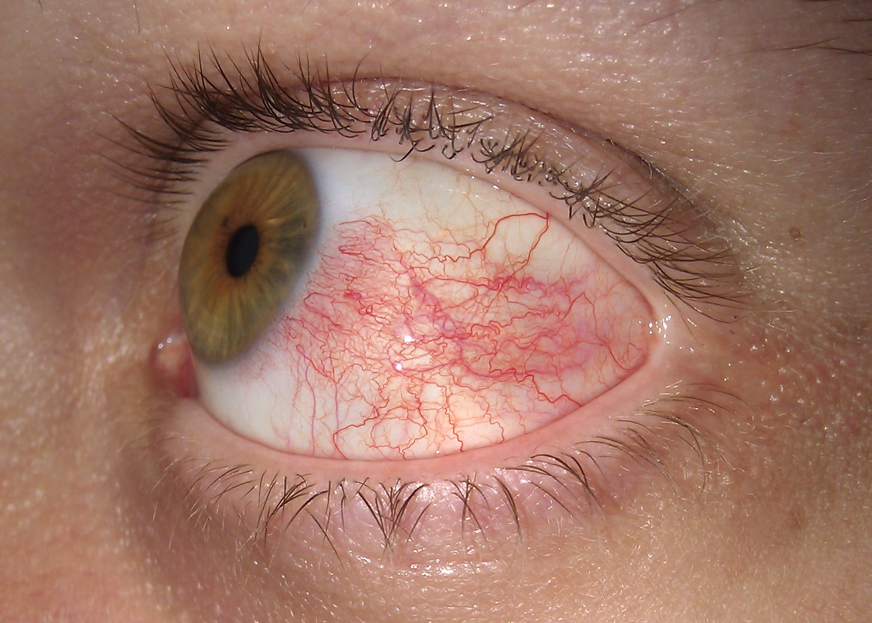 Hyperemia of the superficial blood vessels of the conjunctiva